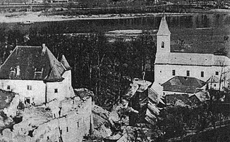 Považské Podhradie, photo of a burg and a church